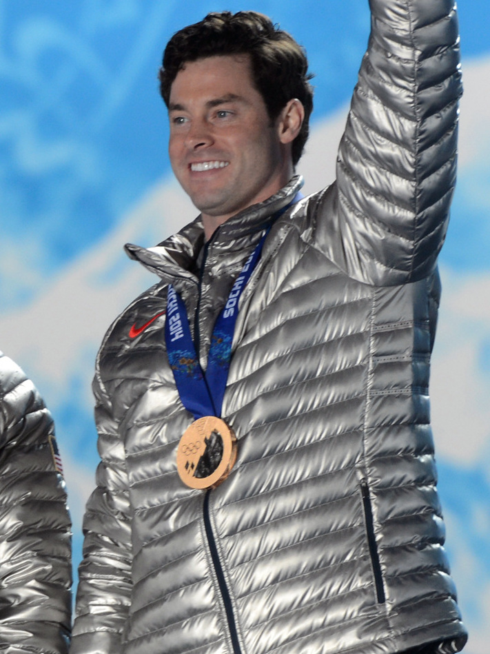 Former U.S. Army World Class Athlete Program bobsledder Steven Holcomb of Park City, Utah, and Steve Langton of Melrose, Mass., hoist the flowers and display their bronze medals during the Olympic two-man bobsled medal ceremony Feb. 18 at Olympic Park in Sochi, Russia. The Russian on the left is Alexander Zubkov, who drove Russia-1 to the gold medal with Alexey Voevoda aboard. (U.S. Army photo by Tim Hipps)